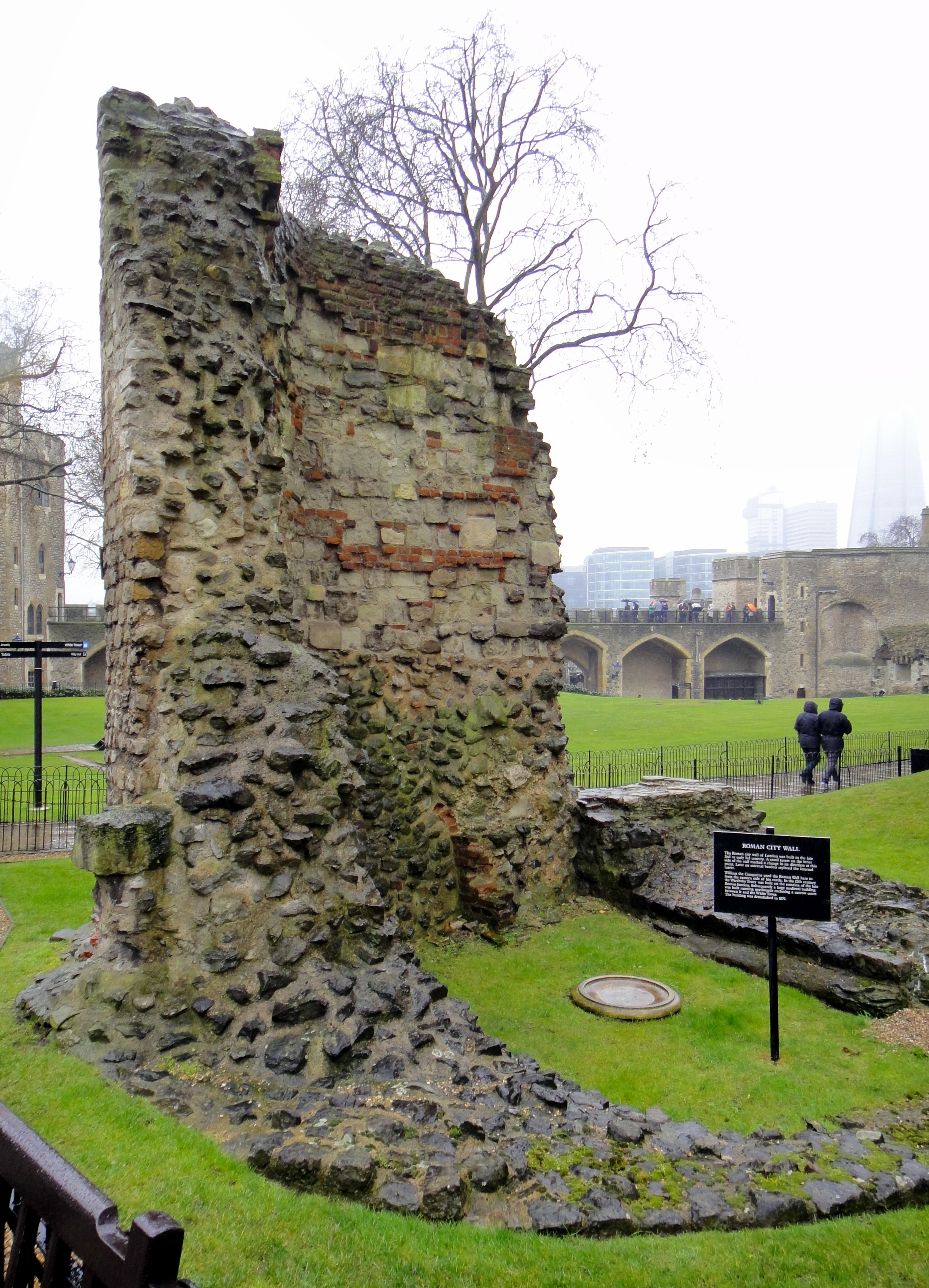 Wardrober Tower, Tower of London